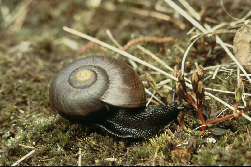 Powelliphanta marchanti, immature, "Tanapo" (seems no such place, possible Taihape), February 1986